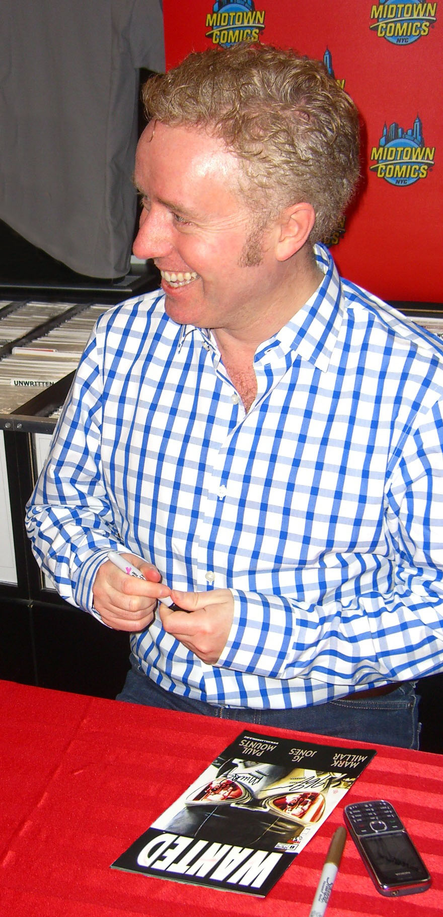 Scottish comics writer Mark Millar at an April 25, 2013 signing at Midtown Comics in Manhattan for his miniseries, Jupiter's Legacy, which debuted the day prior. In the photo, Millar is signing a copy of one of his previous works, Wanted, on which the 2008 feature film of the same name was based. This photo was created by Luigi Novi. It is not in the public domain, and use of this file outside of the licensing terms is a copyright violation.